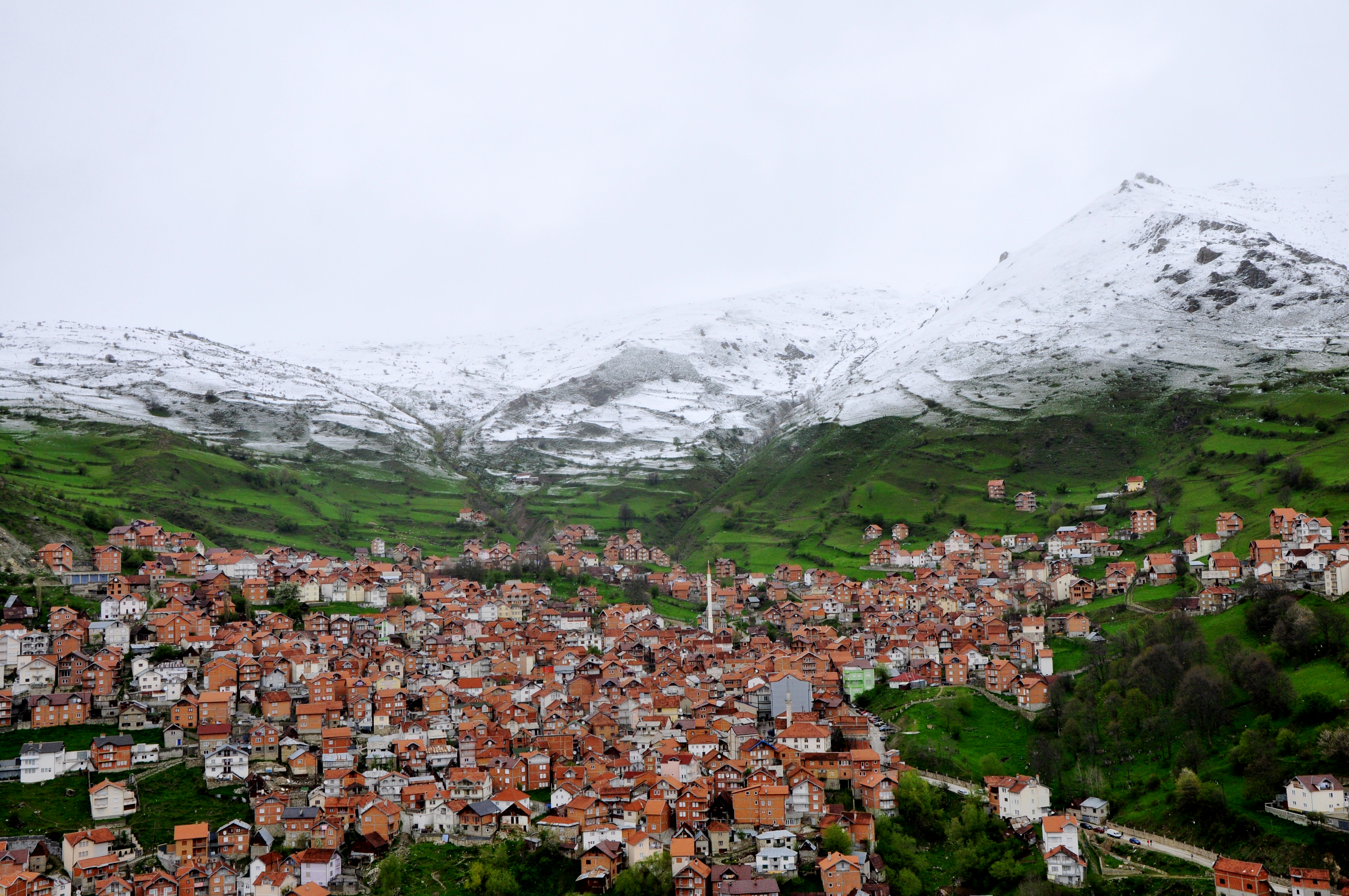 Restelica, fshati Restelicë, village Restelica